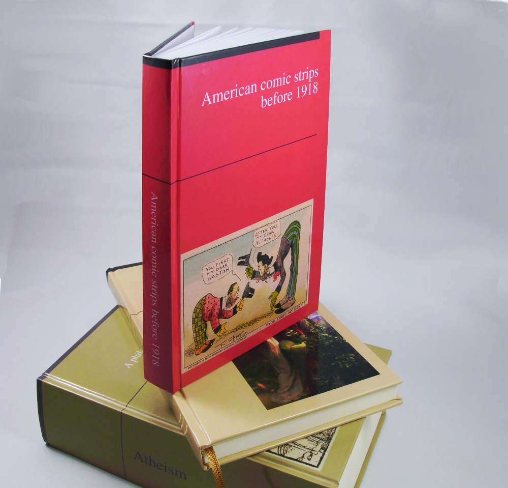 Pile of PediaPress hardcover books